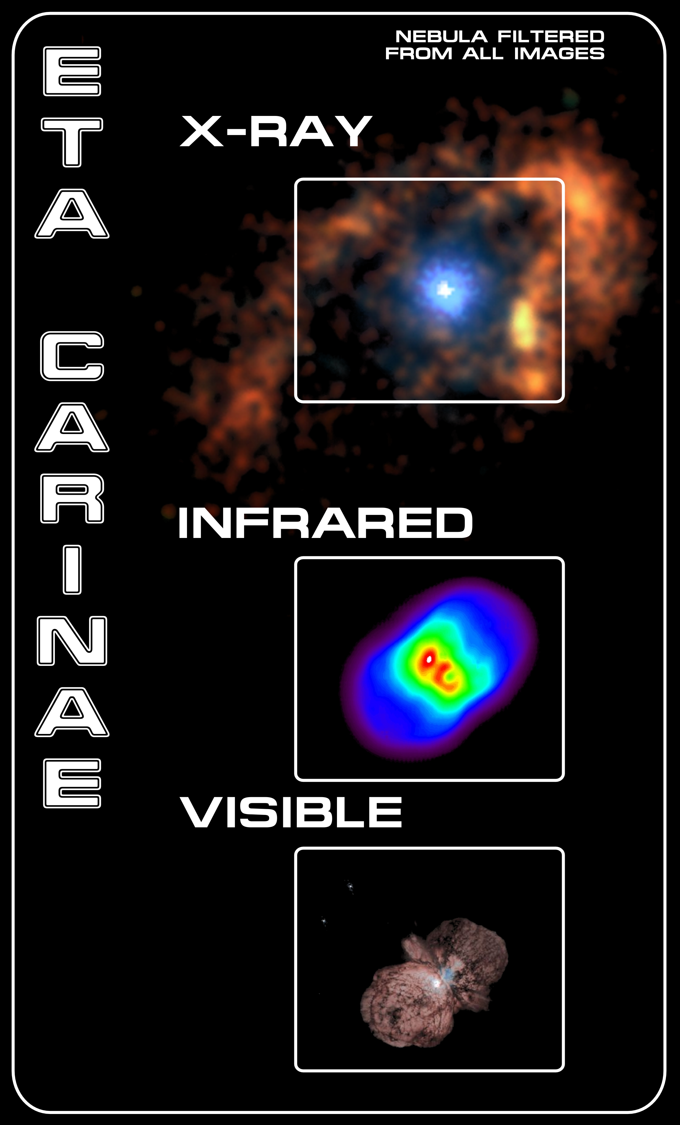 eta car in x ray visible and infra-red